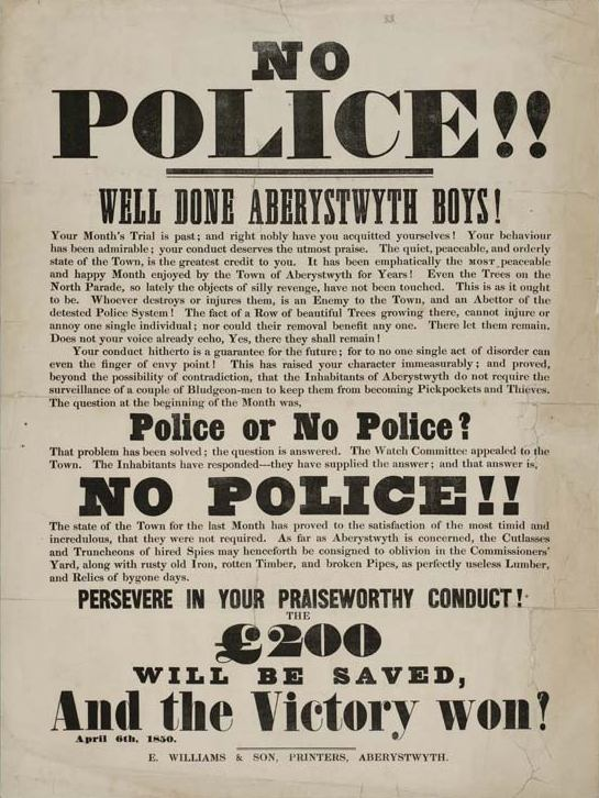 "No Police!! Well Done Aberystwyth Boys" Residents reject proposed foundation of a local Police force